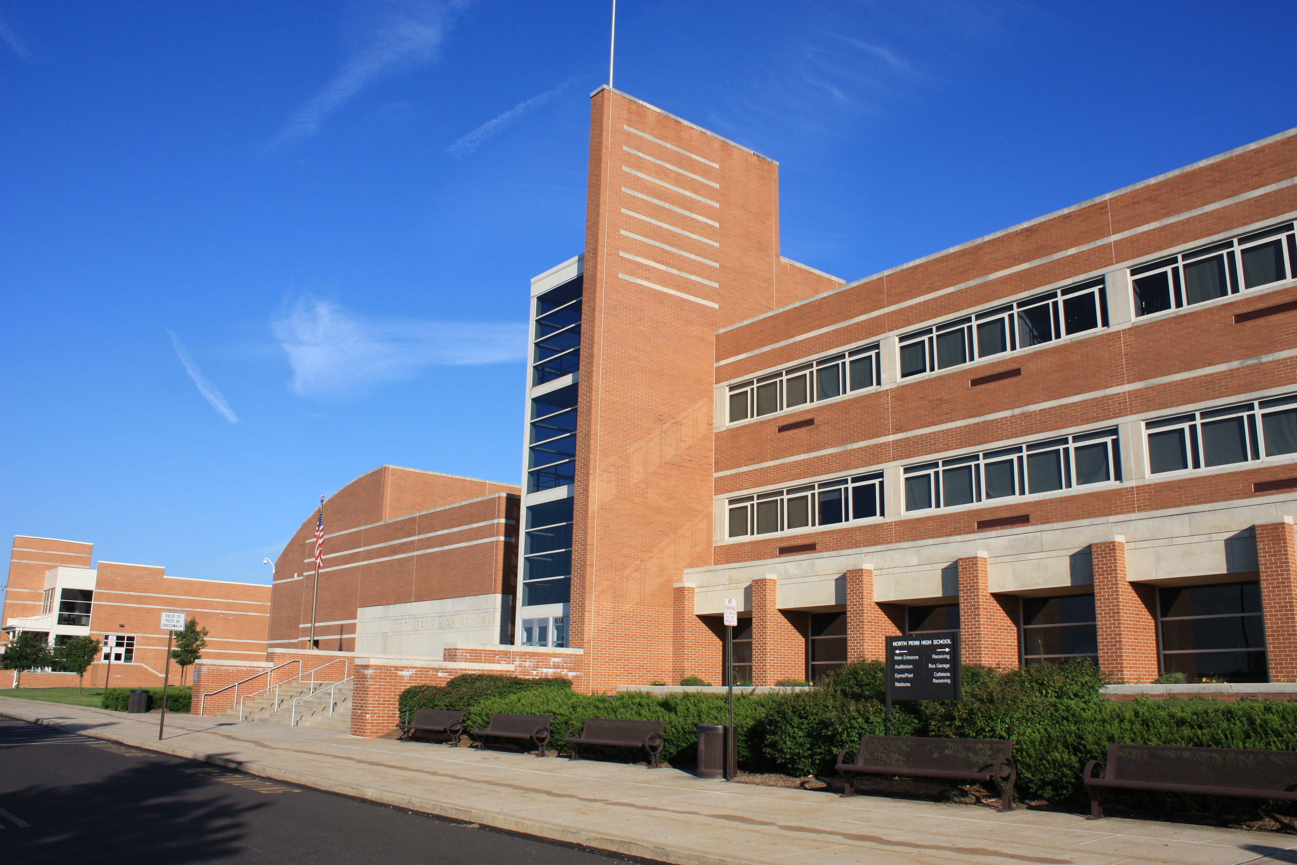 Front view of North Penn High School, a senior high school located in Towamencin Township, Montgomery County, Pennsylvania.